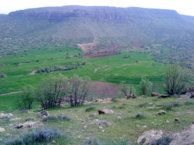 its kohdasht - lorestan - iran.